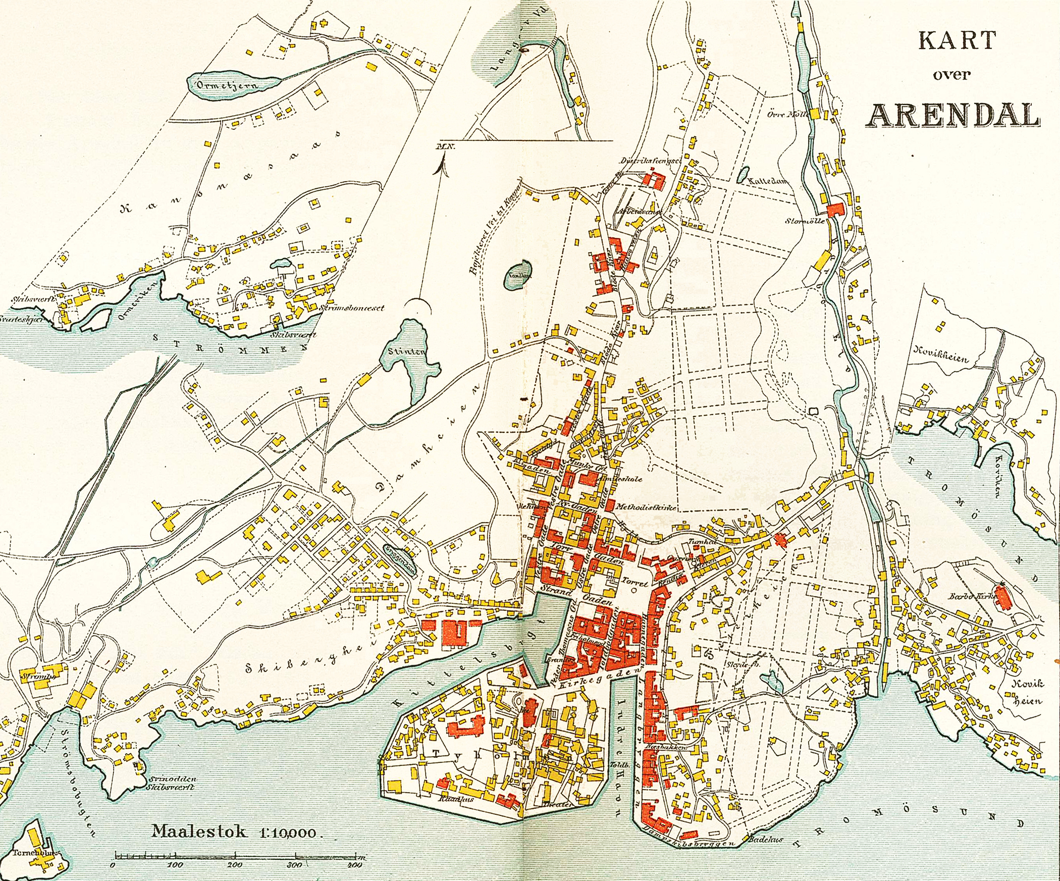 Map of Arendal, Norway, 1904